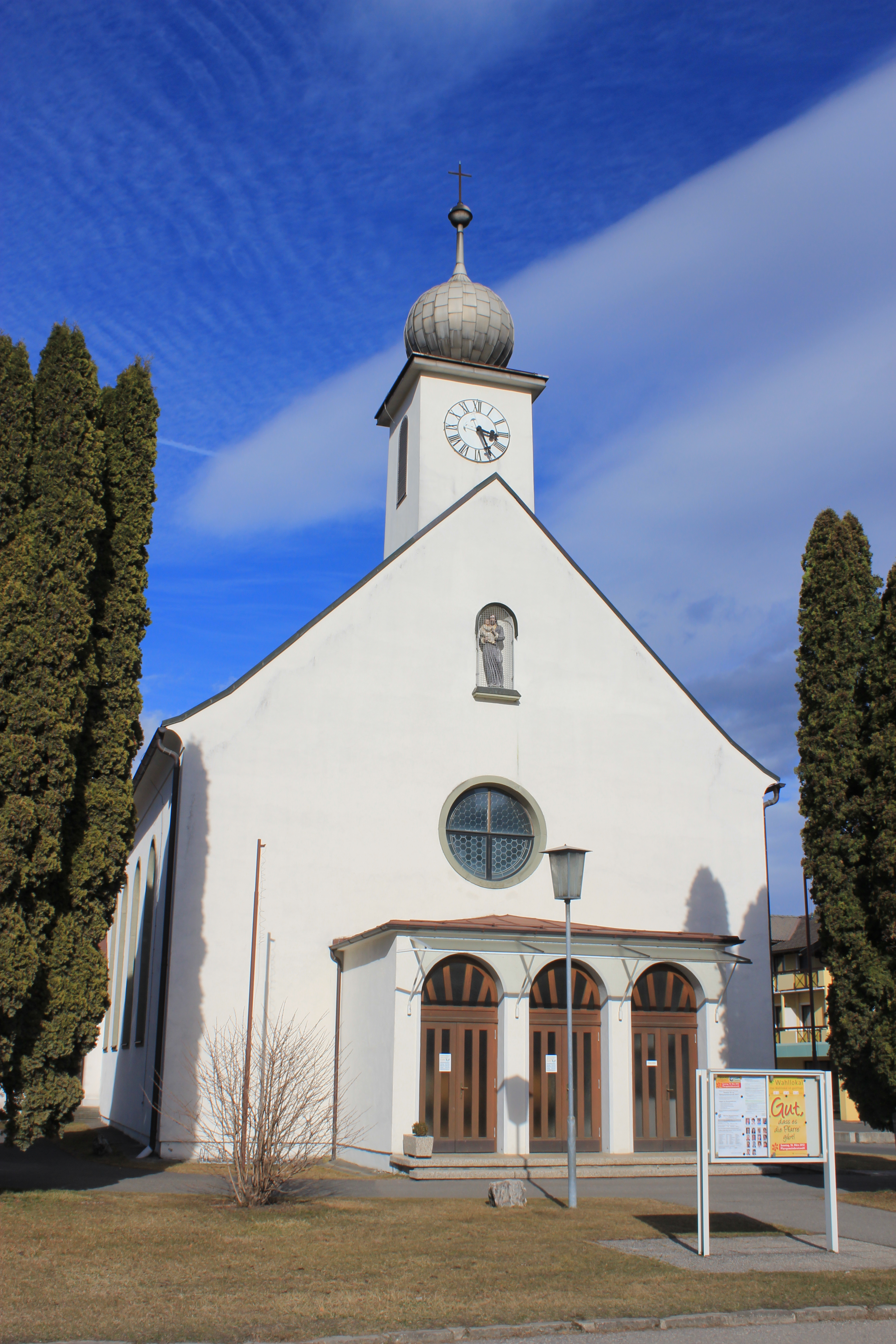 Church of St. Josef in Villach